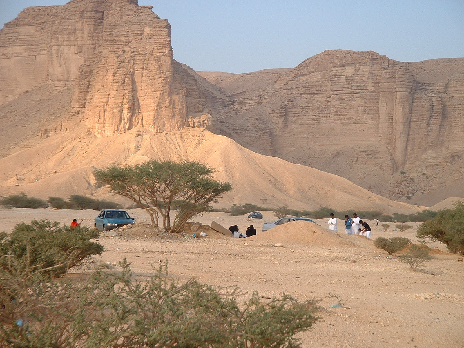 People picnicking at the base of the Tuwaik Escarpment, near the Korean Slope, south-west of Riyadh, Saudi Arabia. The men are busy praying. Location: (24.527183, 46.375320) + 654 m